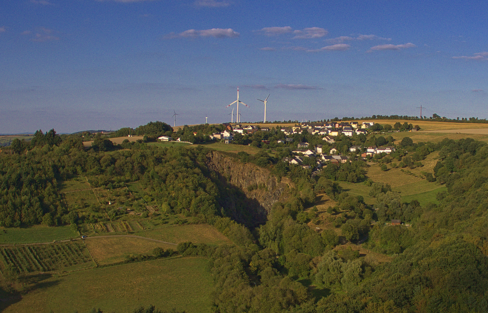 View of the former diabas quarry Silbersee ("Silver Lake") at Hockweiler, Rheinland-Palatinate, Germany.